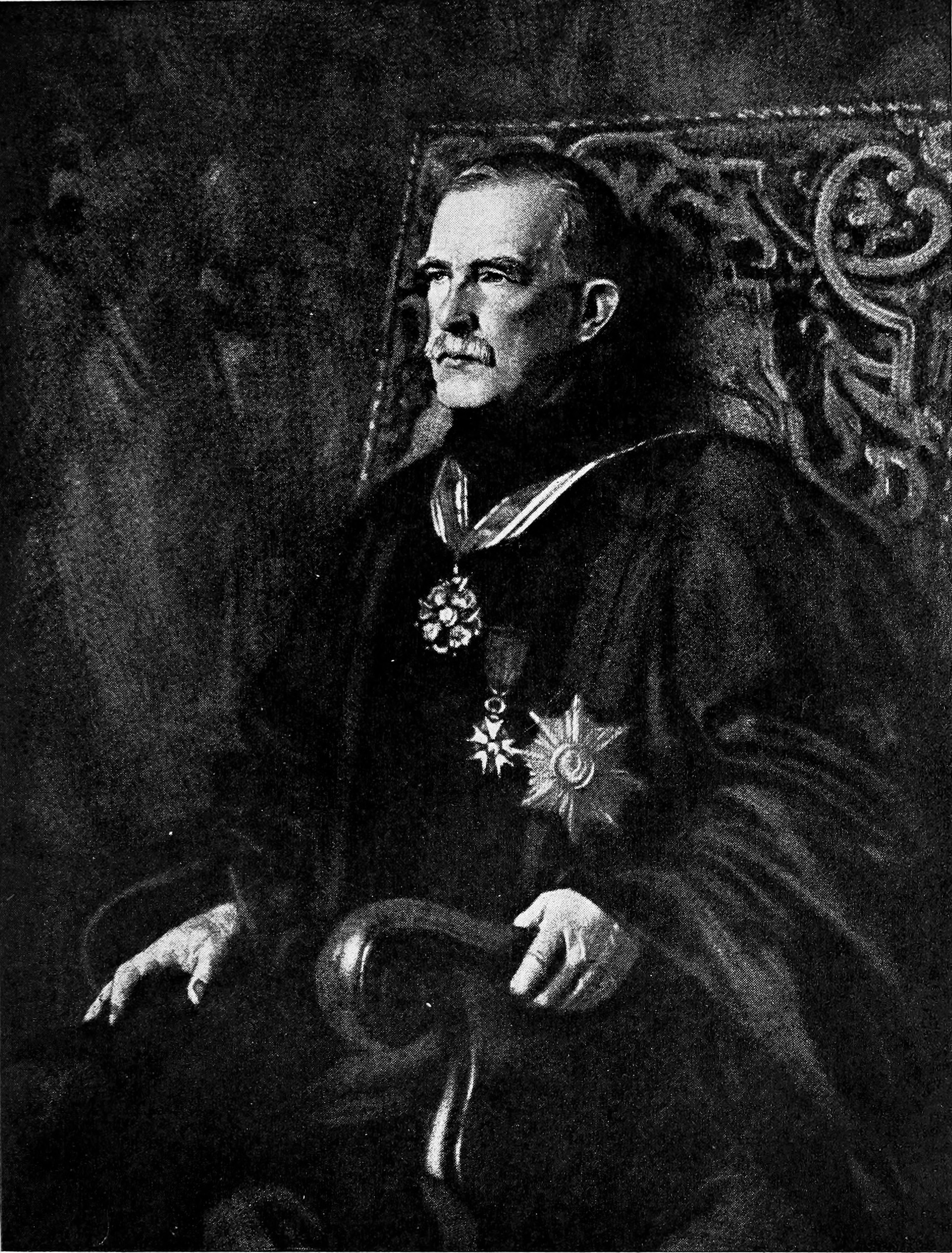 Dr. Henry Marion Howe, from the portrait by Font